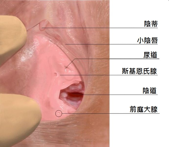 GUD